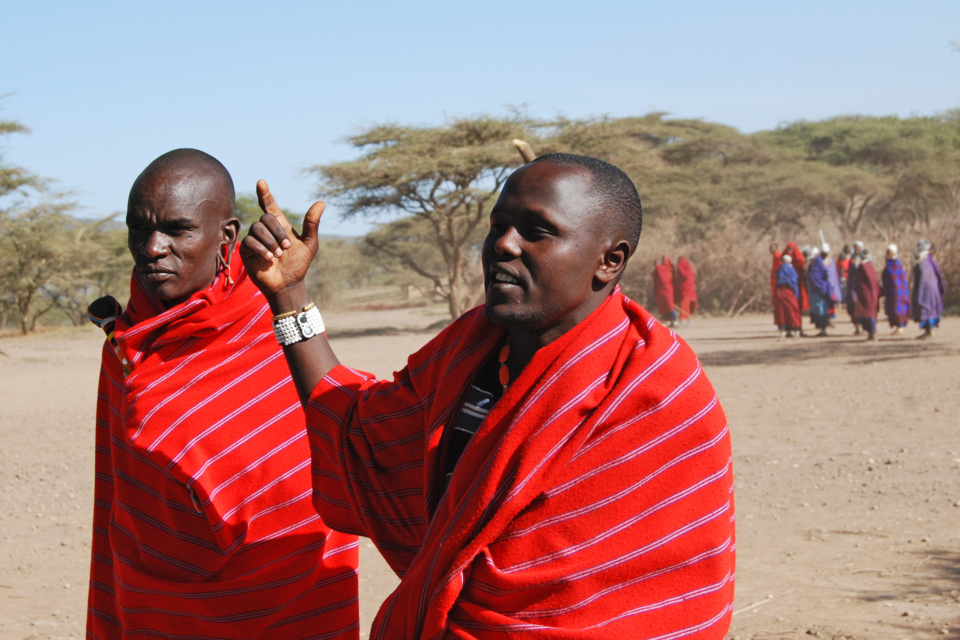 Our greeting into a Ngorongoro Maasai Village / The Maasai are a Nilotic [Nile Valley] ethnic group of semi-nomadic people located in Kenya and northern Tanzania